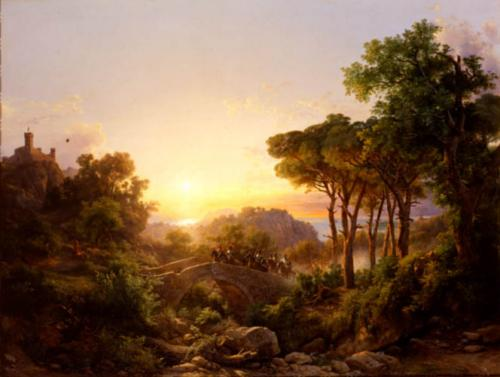 Landscape at Sunset by Károly Markó, Stibbert Museum